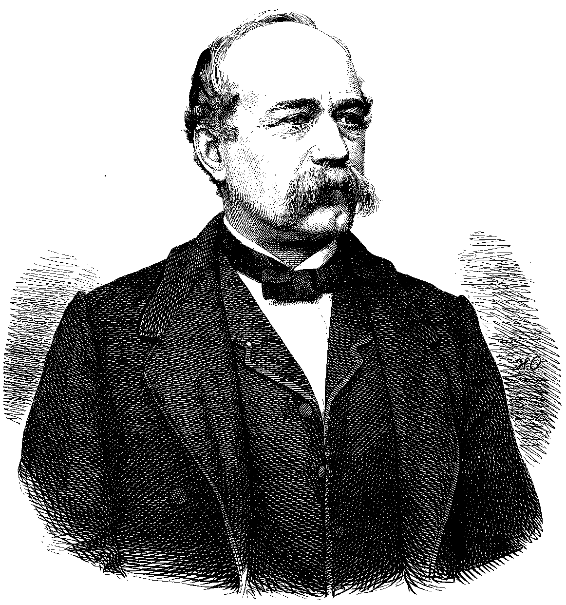 Danish politician, diplomat and officer Valdemar Rudolf Raasløff (1815-1883)